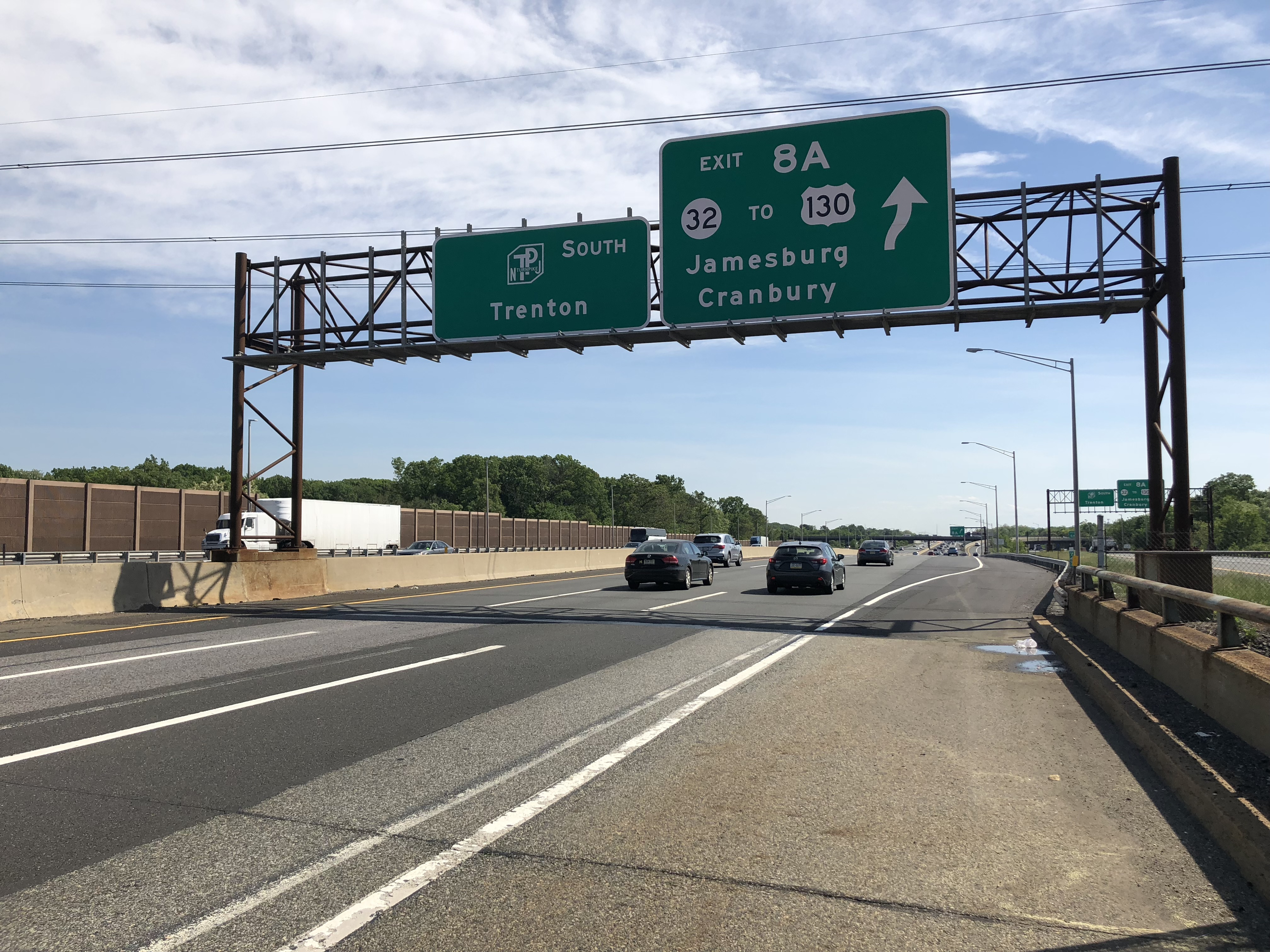 View south along Interstate 95 (New Jersey Turnpike) just north of Exit 8A (New Jersey State Route 32, To U.S. Route 130, Jamesburg, Cranbury) on the border of South Brunswick Township and Monroe Township in Middlesex County, New Jersey